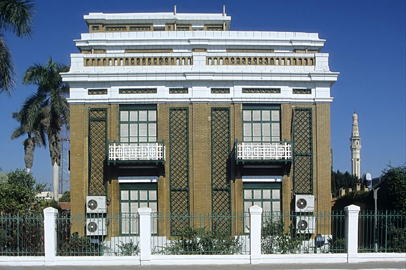 Administrative building north of the house of Lesseps, Ismailia, Egypt